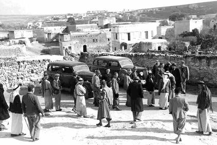 Sabbarin